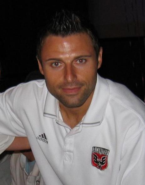 Photo of Dema Kovalenko taken by me at D.C. United meet-the-team day.